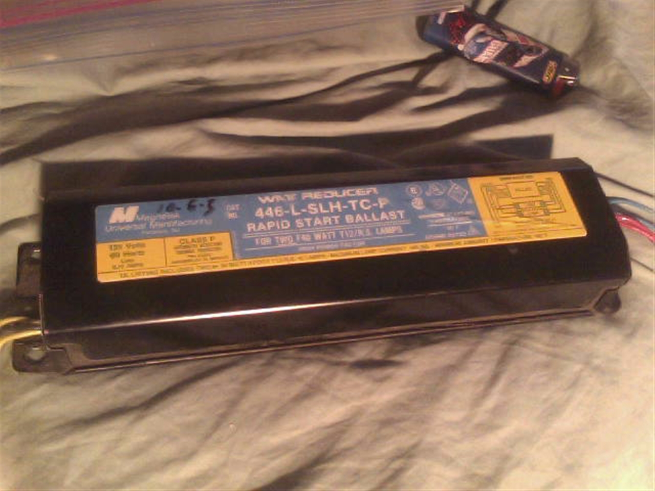 A high power factor rapid start magnetic ballast